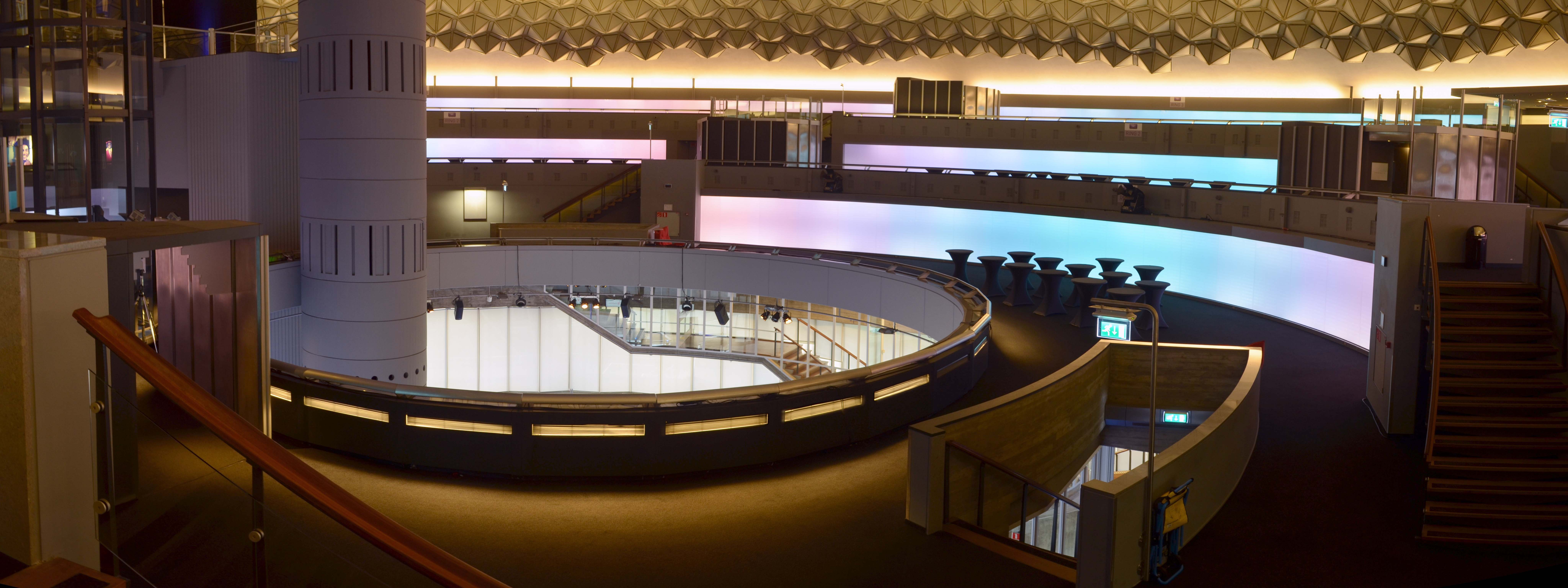 Stitched panorama of the interior of Evoluon in Eindhoven, the Netherlands in September 2016.